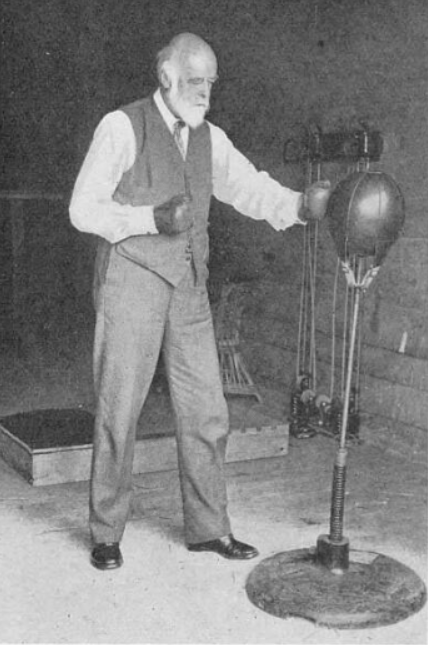 Oliver lodge at his home using a punch-ball.